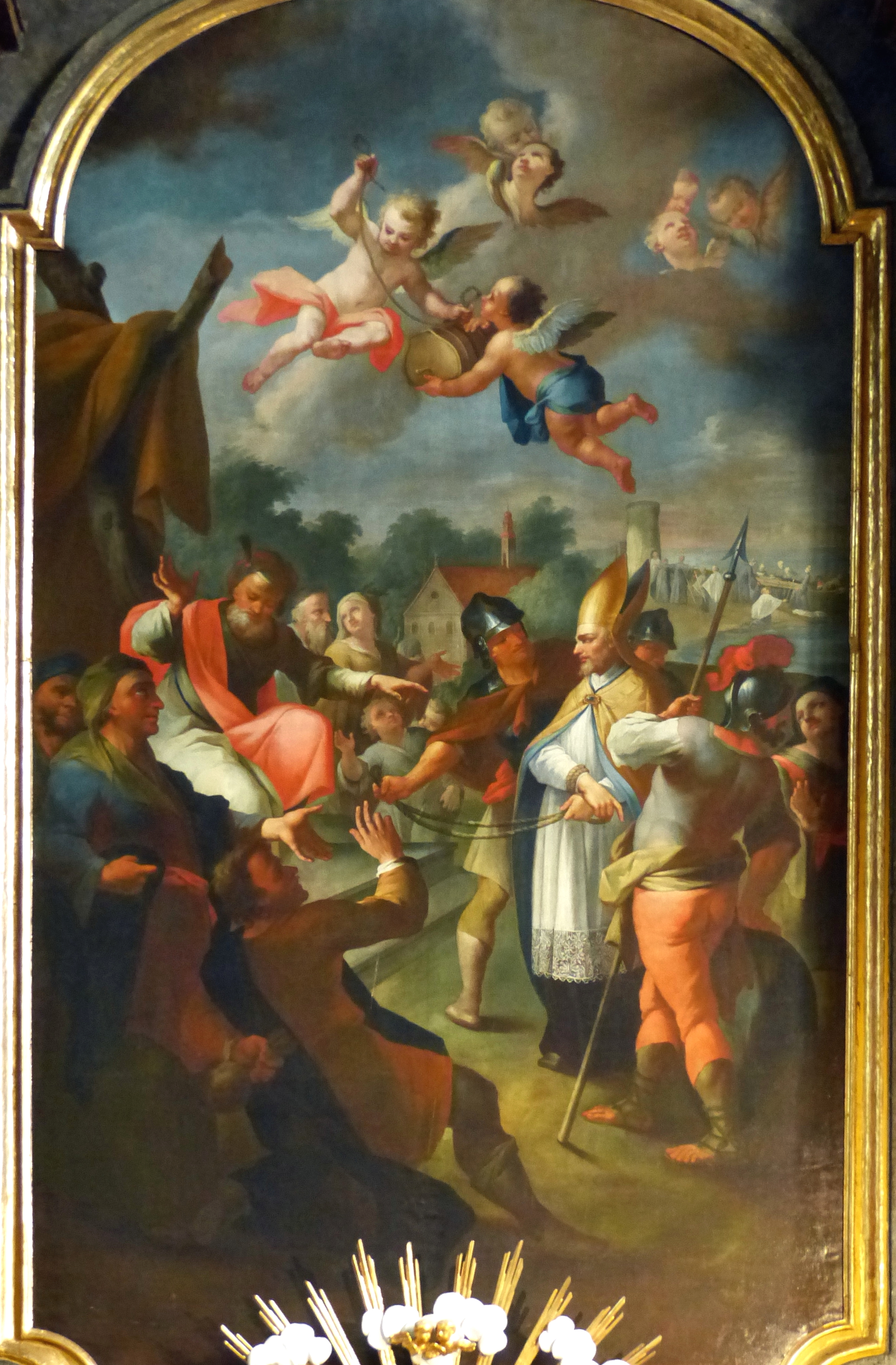 Mödling ( Lower Austria ). Saint Othmar parish church - High altar ( 1760 ): Altar painting showing the martyrdom of Saint Othmar.